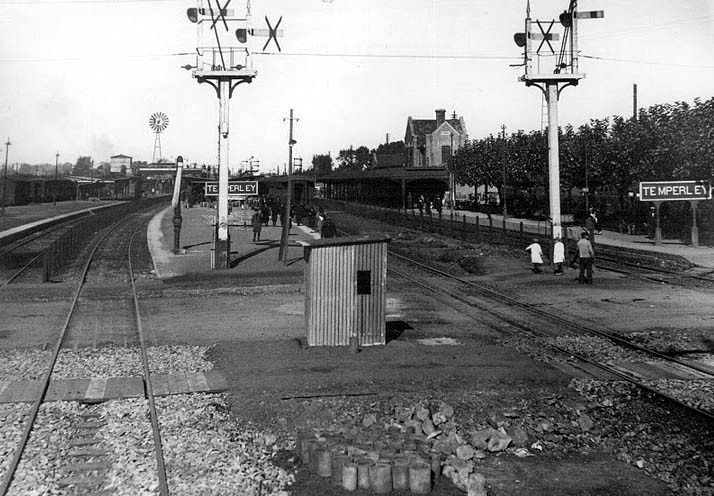 Temperley railway station, part of Buenos Aires Great Southern Railway.